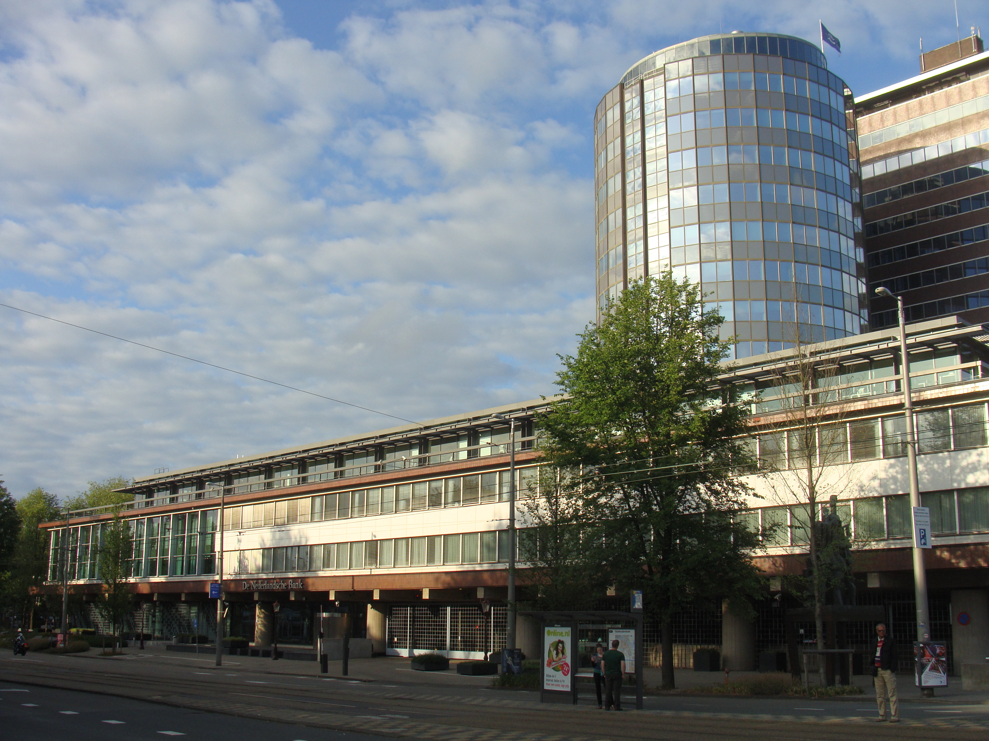 De Nederlandsche Bank, headquarters in Amsterdam, from Westeinde. Atchitects: main building by Marius Duintjer (1908 - 1983), cylindrical tower by J. Abma.